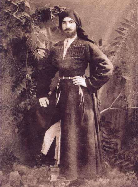 Prince Varden Tsulukidze, future general of the Georgian army (1865-1923)